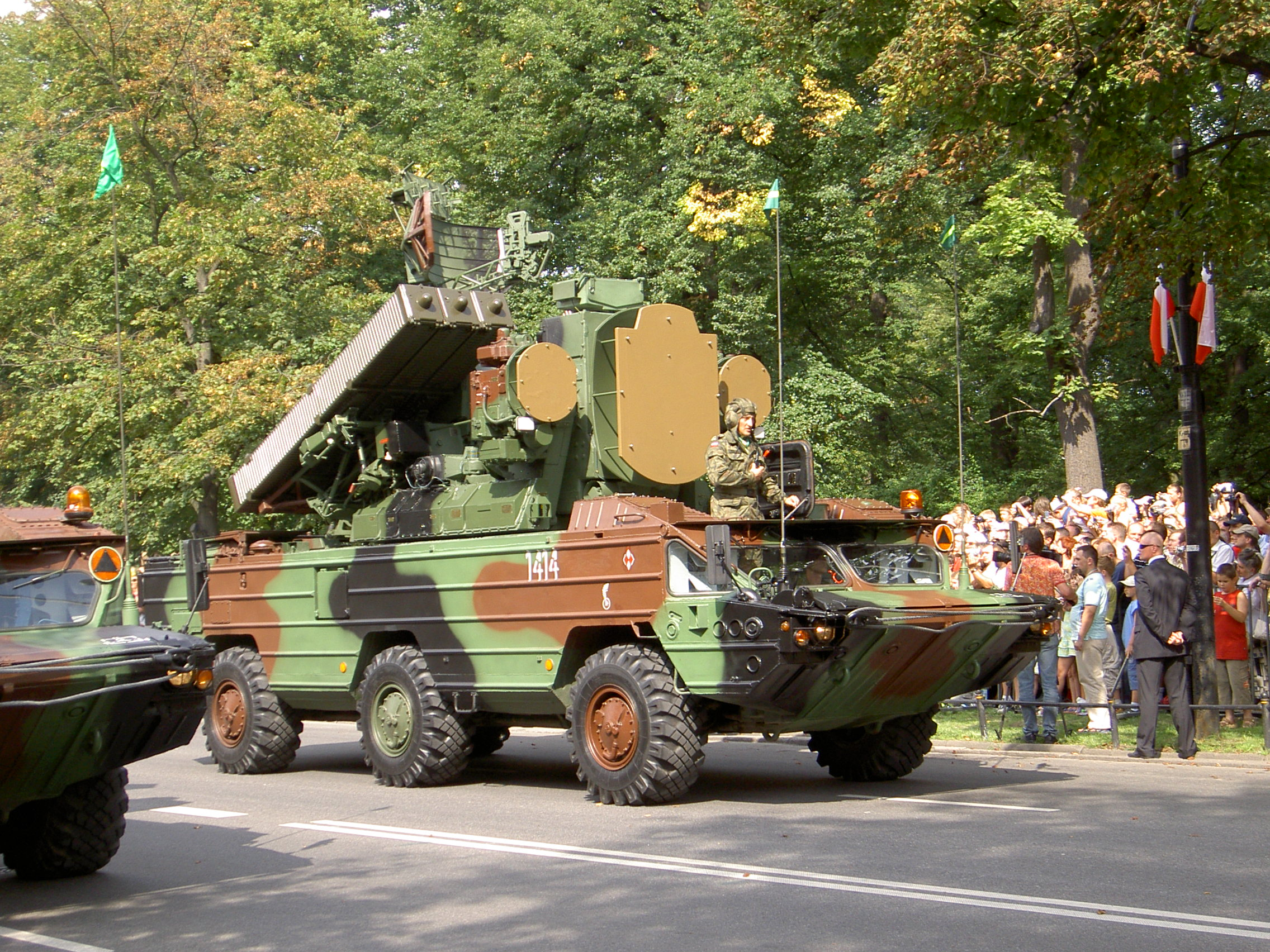 Polish Army surface to air missile system Osa-AKM